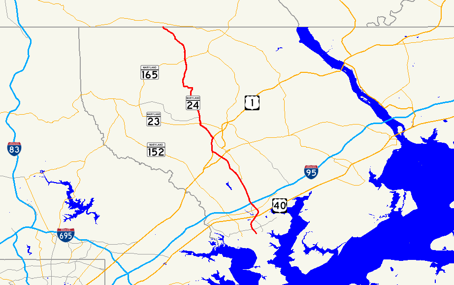 Map of Maryland Route 24